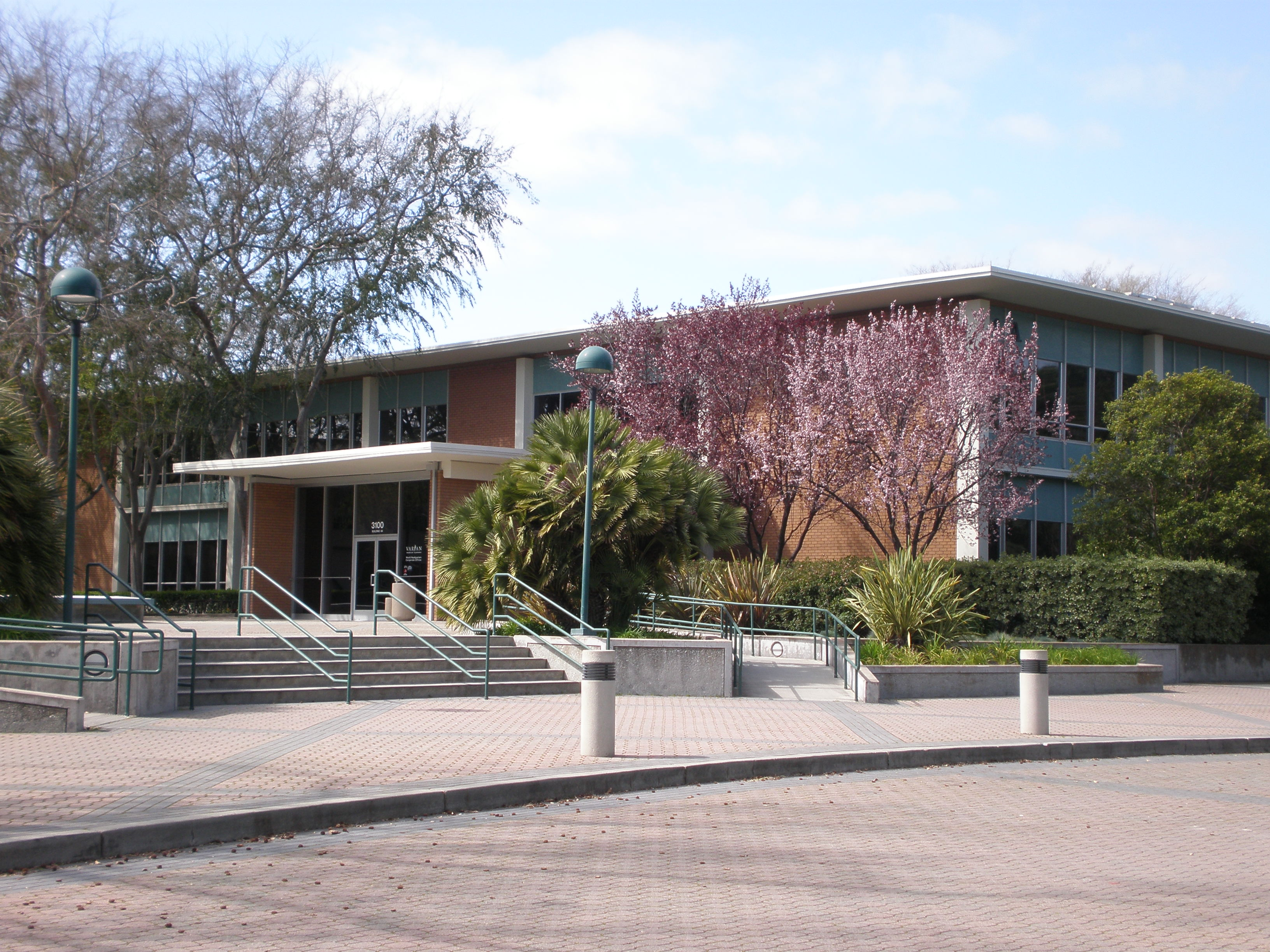 Varian Medical Systems headquarters in Palo Alto, California.